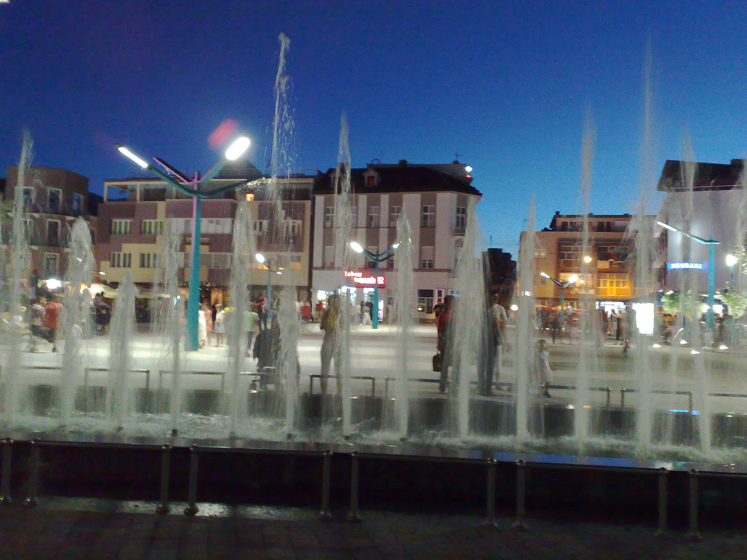 Novi trg Bihac